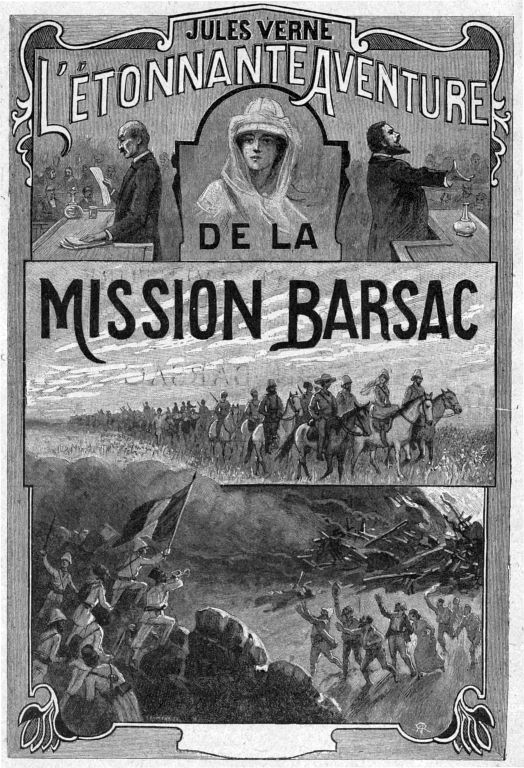 An illustration from Jules Verne's novel "The Barsac Mission" drawn by George Roux.